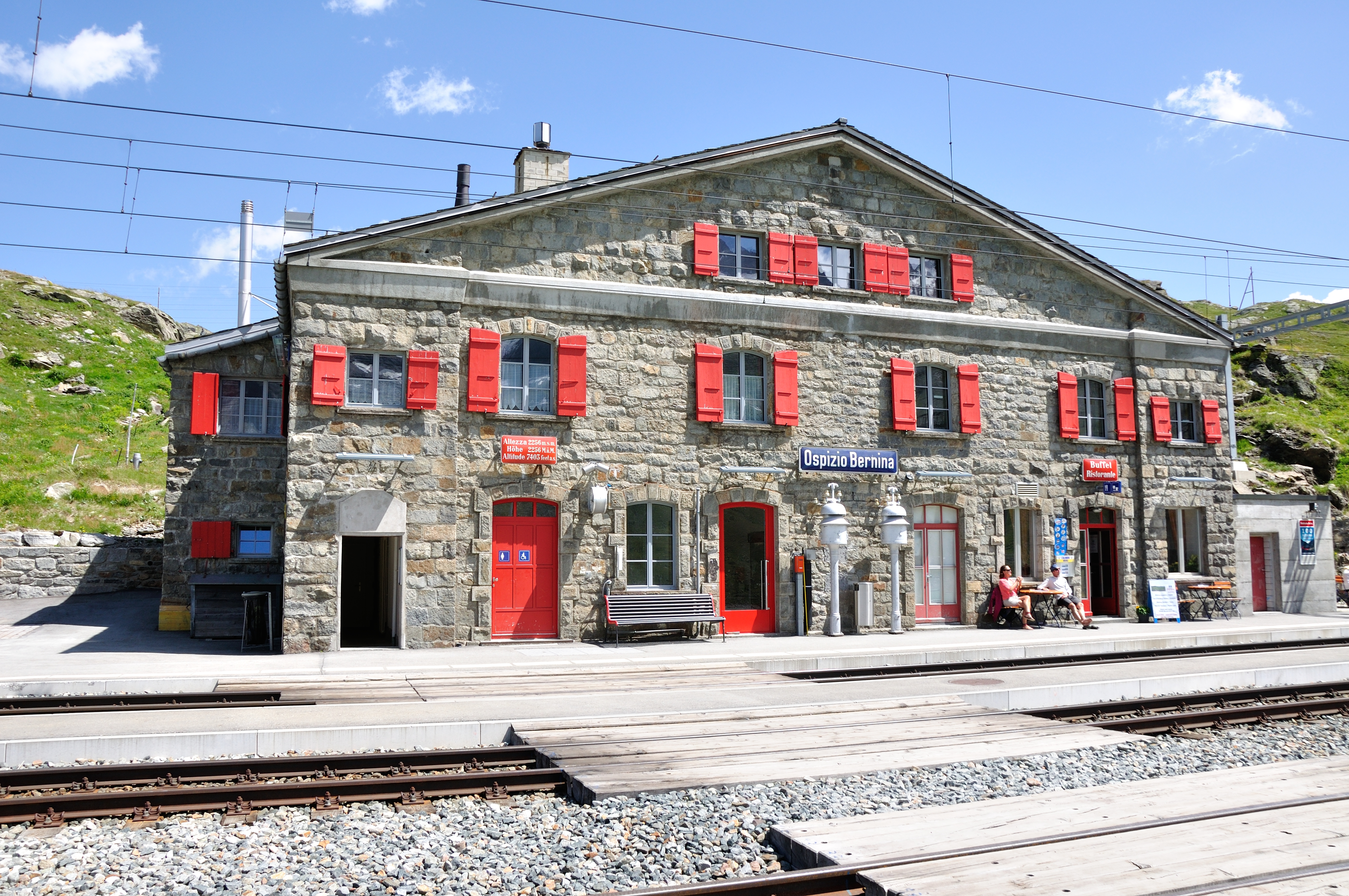 Switzerland, Graubünden, views along the hiking trail from Bernina Pass to Alp Grüm